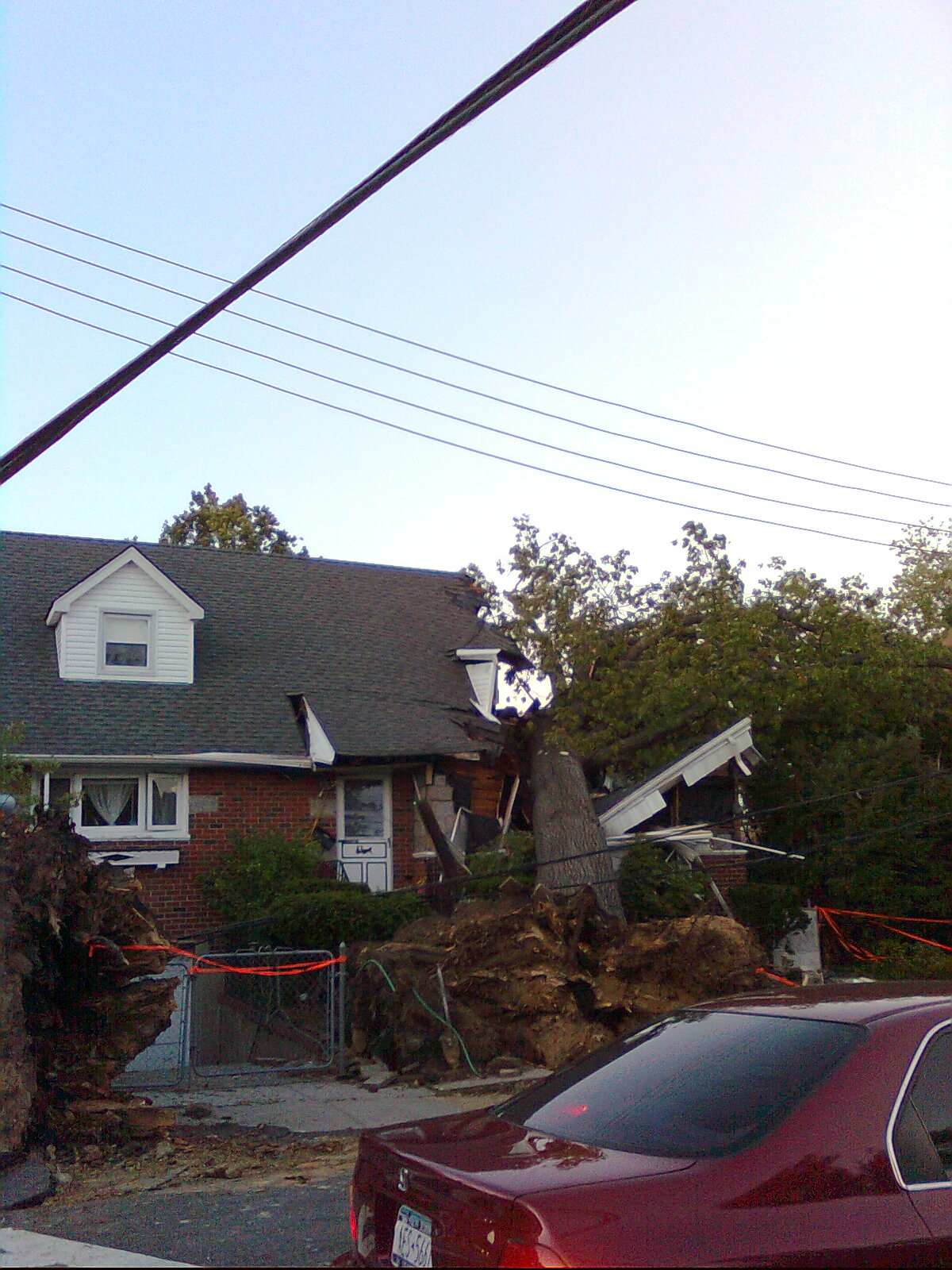 Storm damage in Flushing from 9/16/2010 tornado